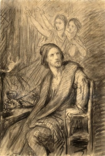 Studie voor Faust en de gifbeker